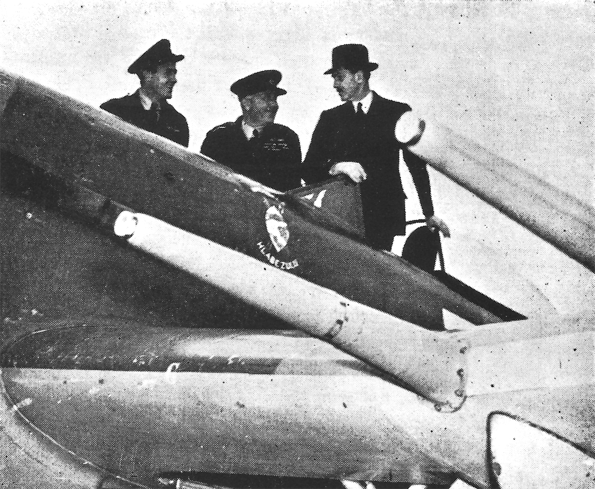 Godfrey Huggins, the Prime Minister of Southern Rhodesia, visits No. 266 (Rhodesia) Squadron RAF in May 1944. The PM is inspecting the Typhoon donated to the unit by the colony's black community.